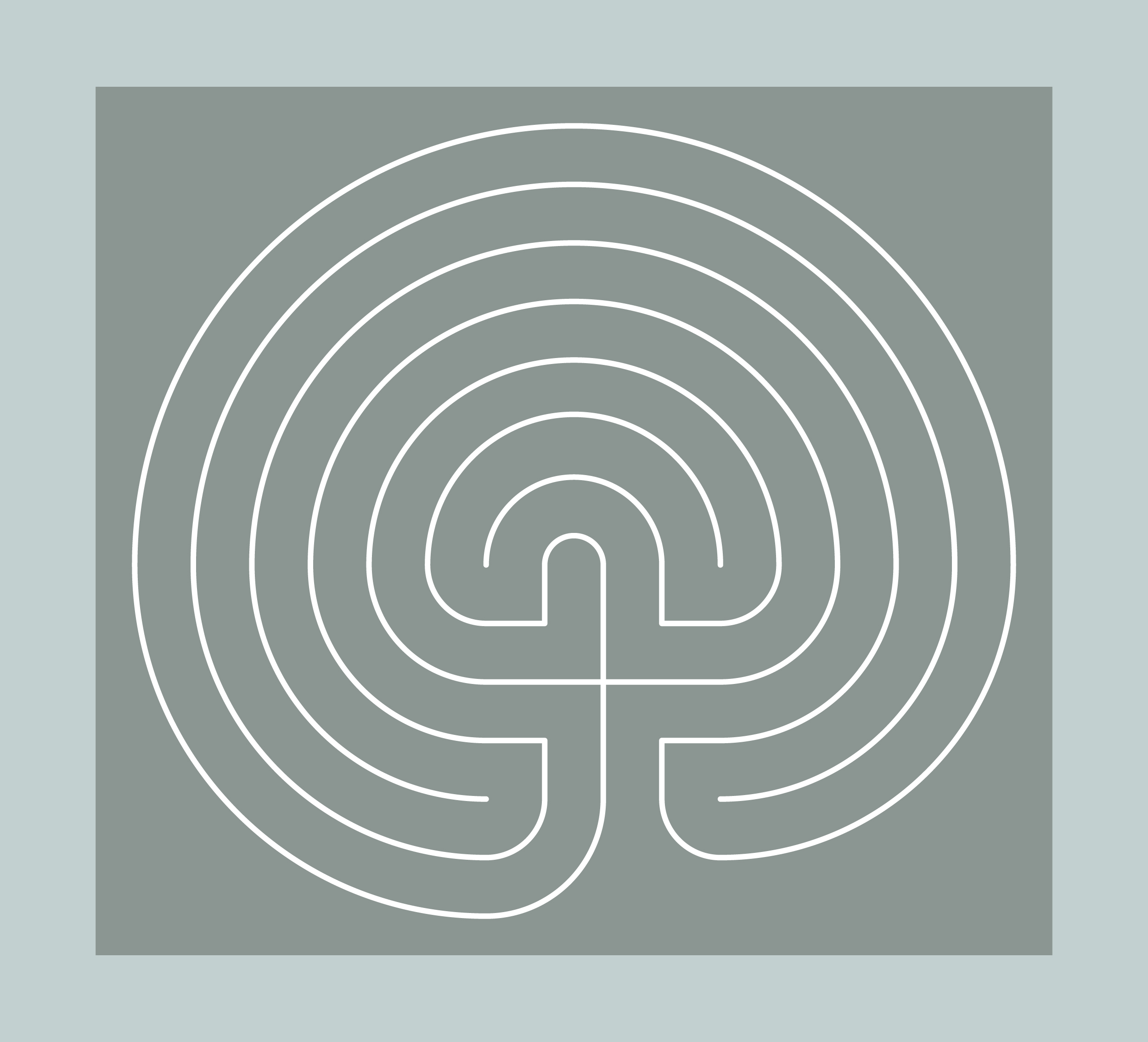 Classical Seven-Circuit Labyrinth